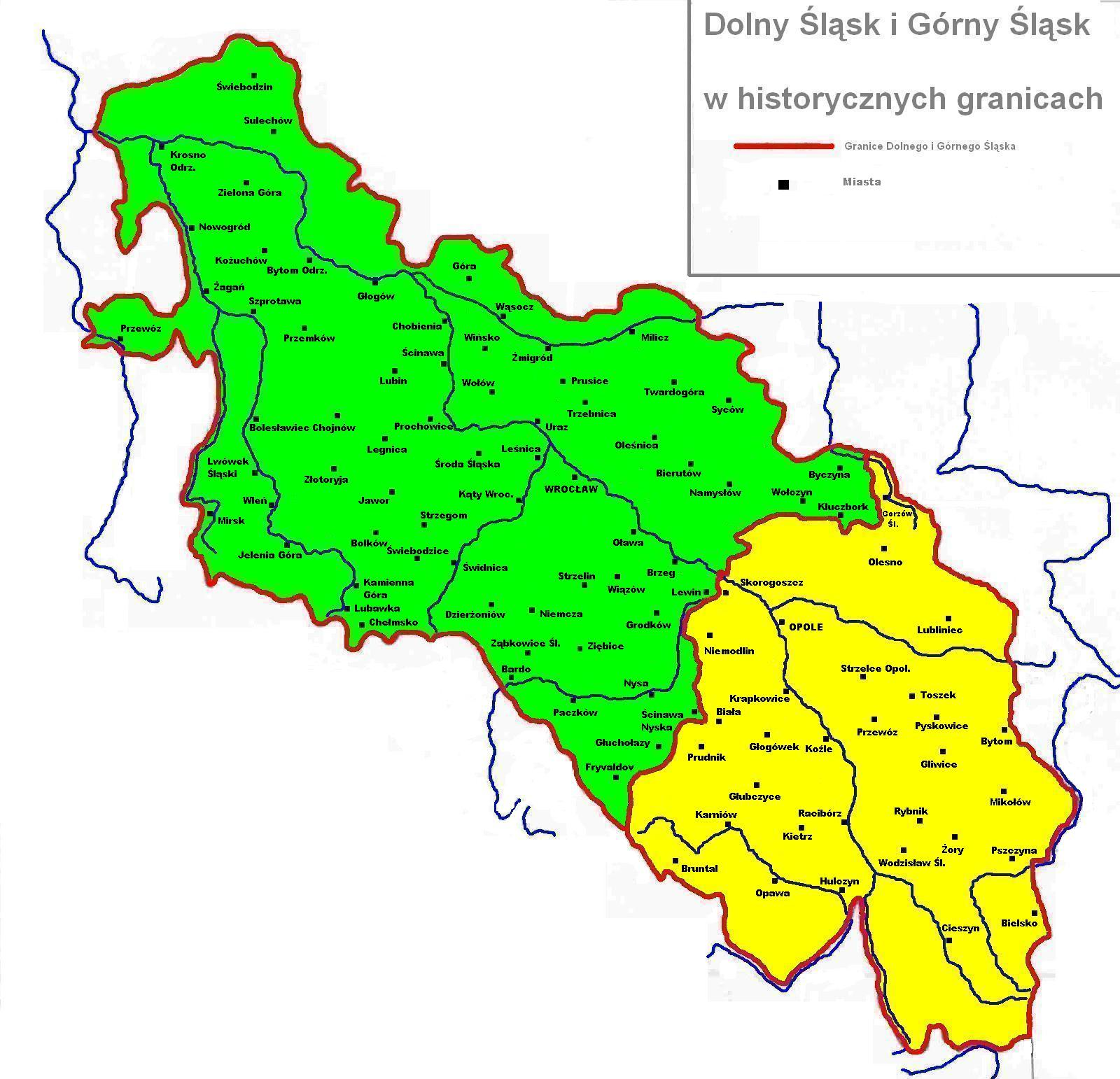 The historical boundaries of Silesia